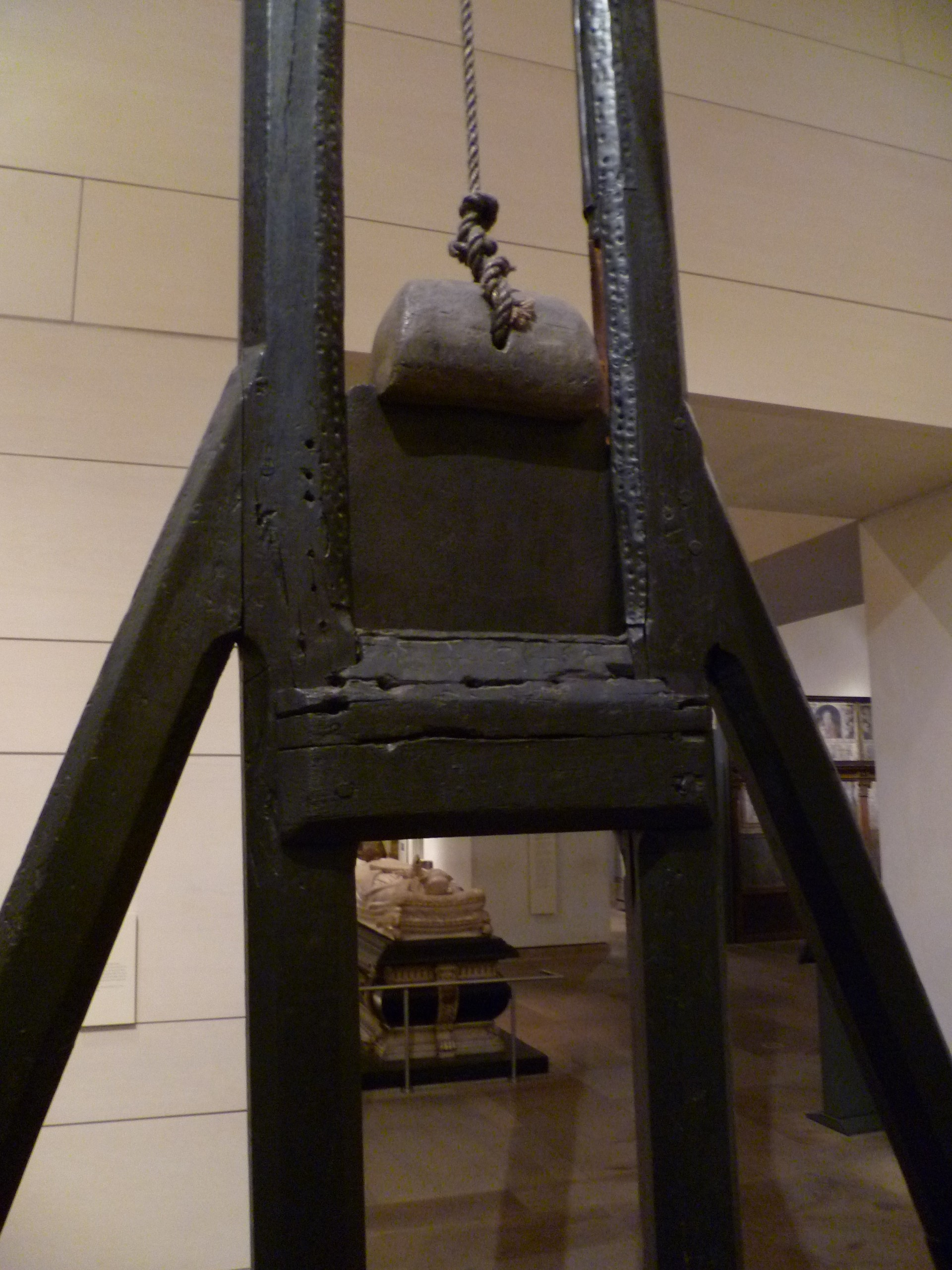 Blade of The Maiden, weighted with 75 lbs of lead, National Museum of Scotland